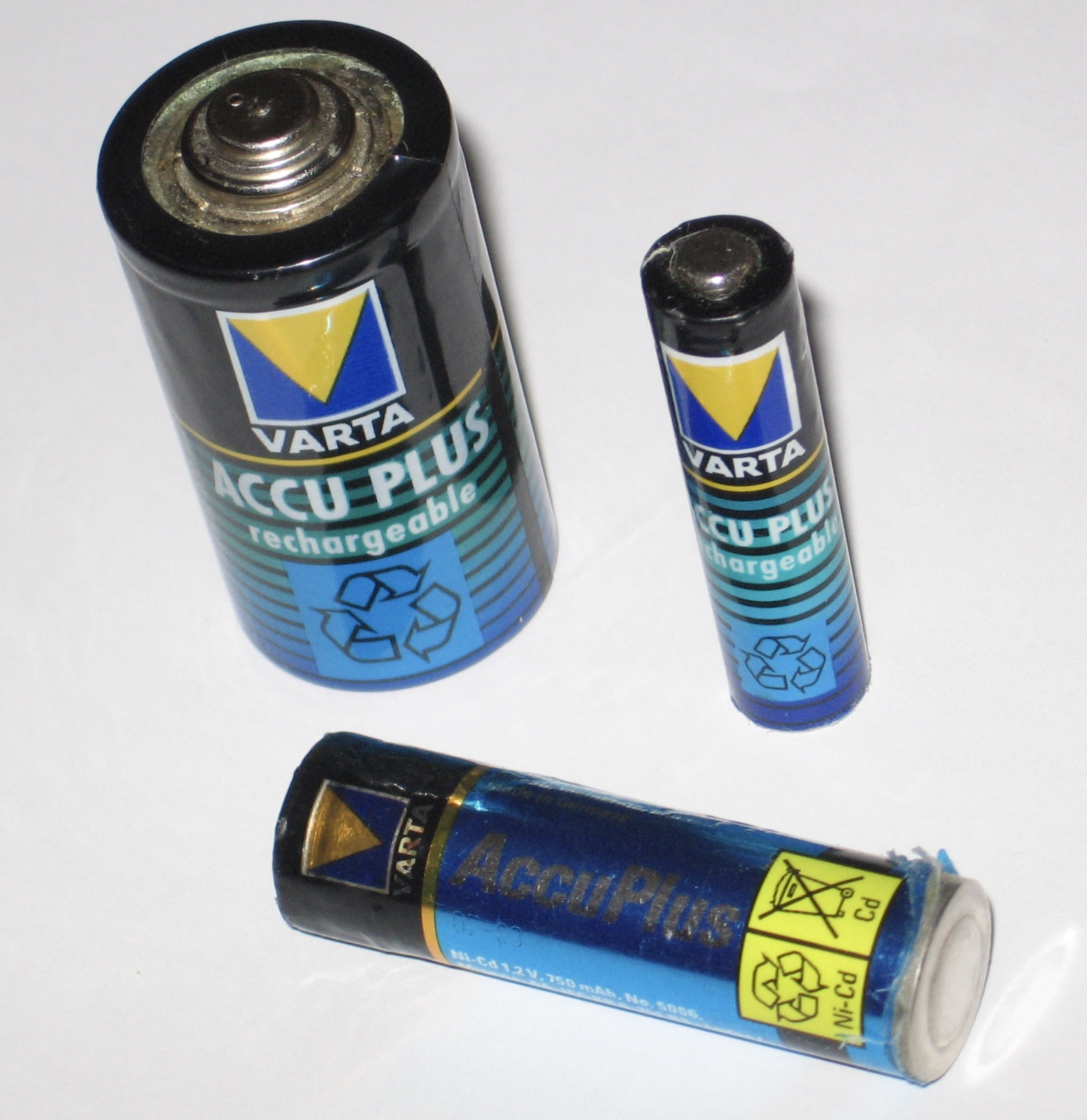 Rechargeable NiCd batteries produced by Varta.